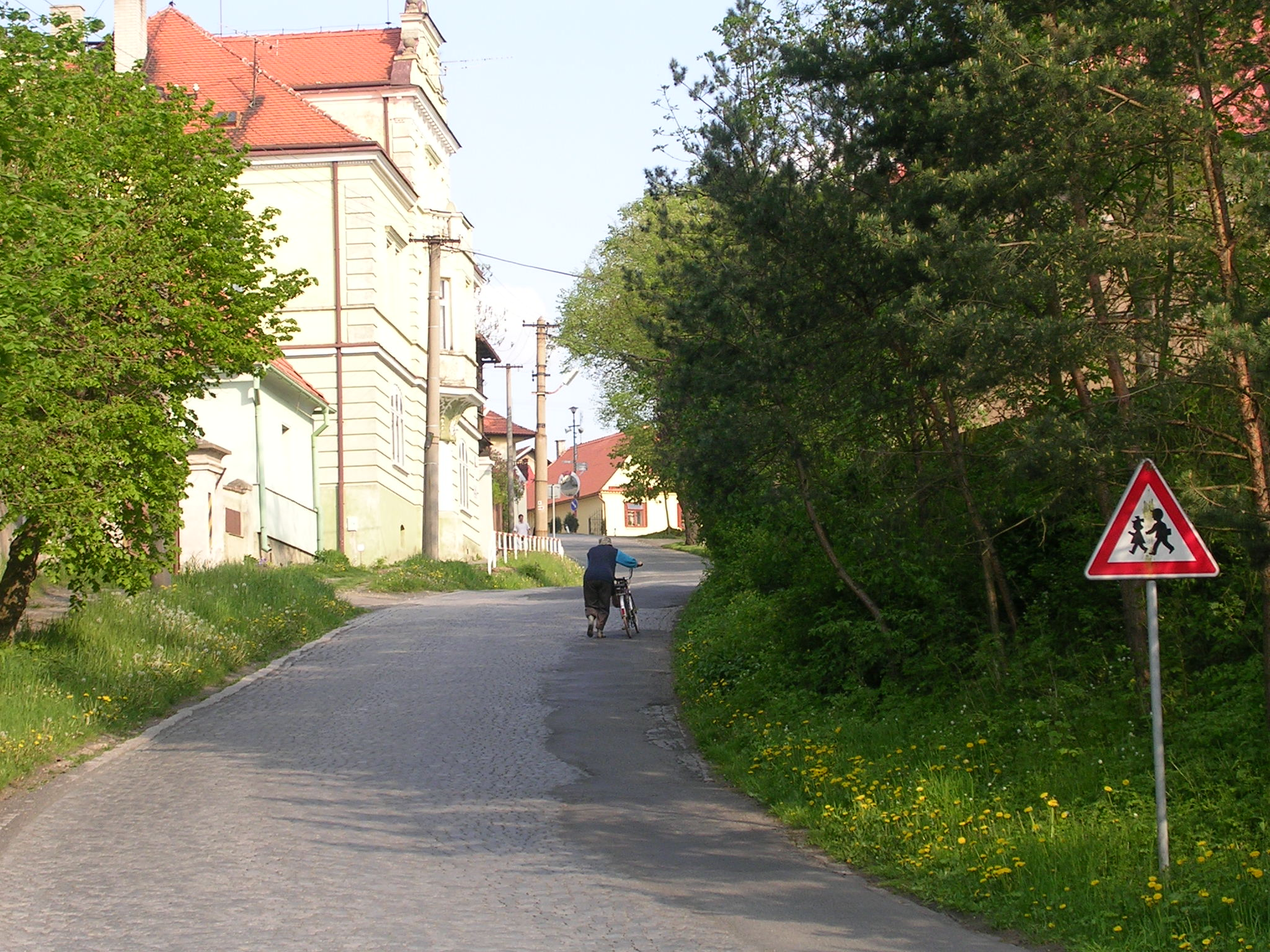 Křivoklát, the Czech Republic.